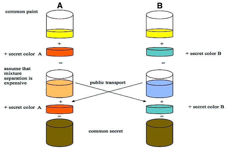 Illustration of the idea of the Diffie-Hellman key exchange.